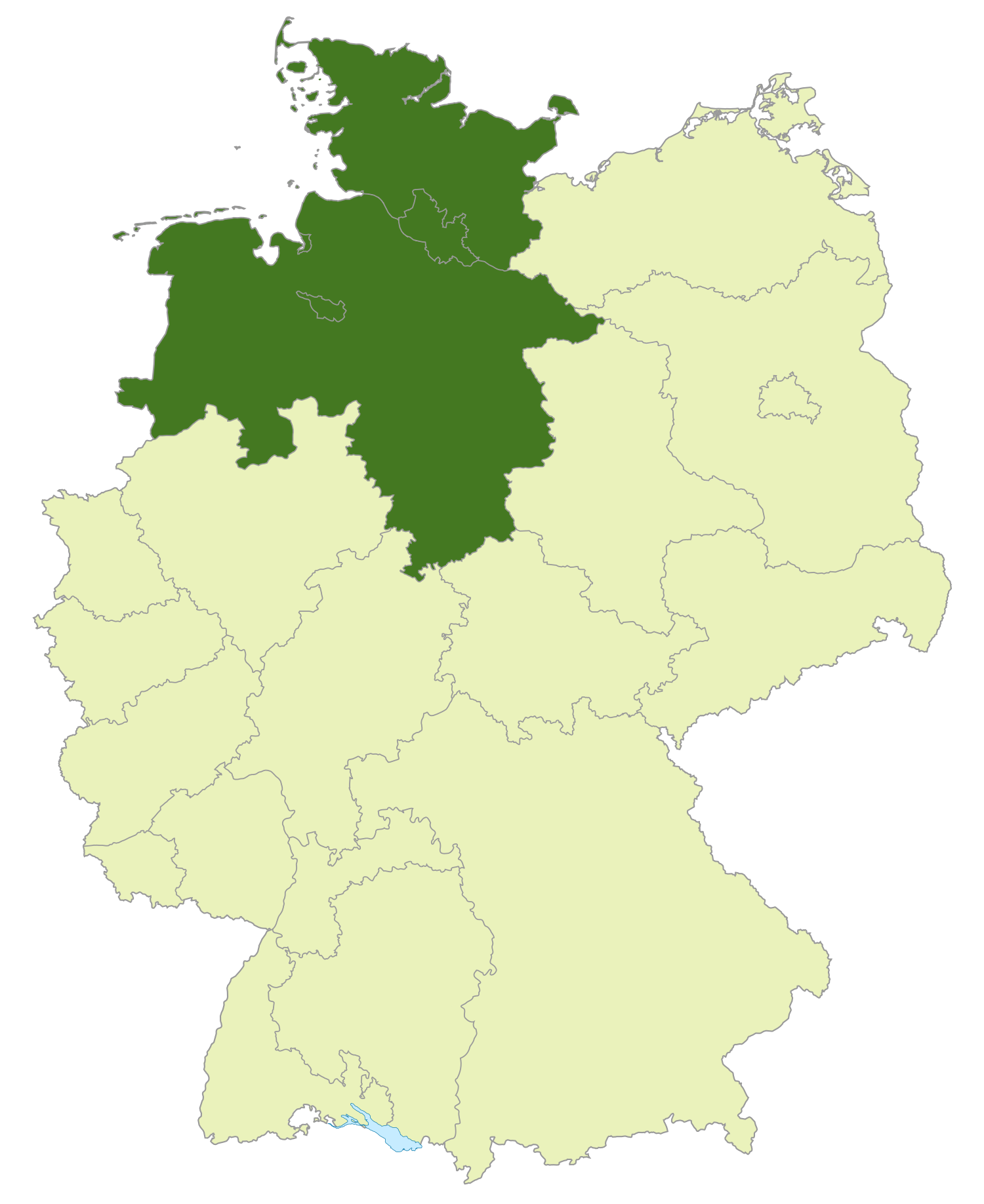 Map of regional soccer association of Norddeutschland, Germany